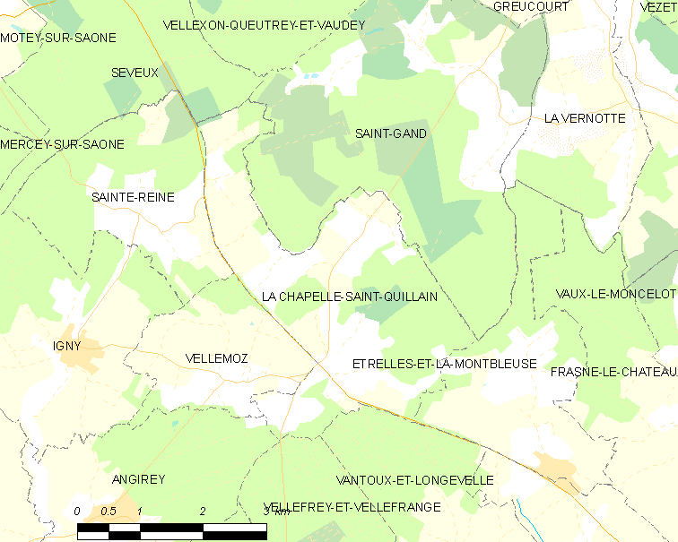 Map of French municipality